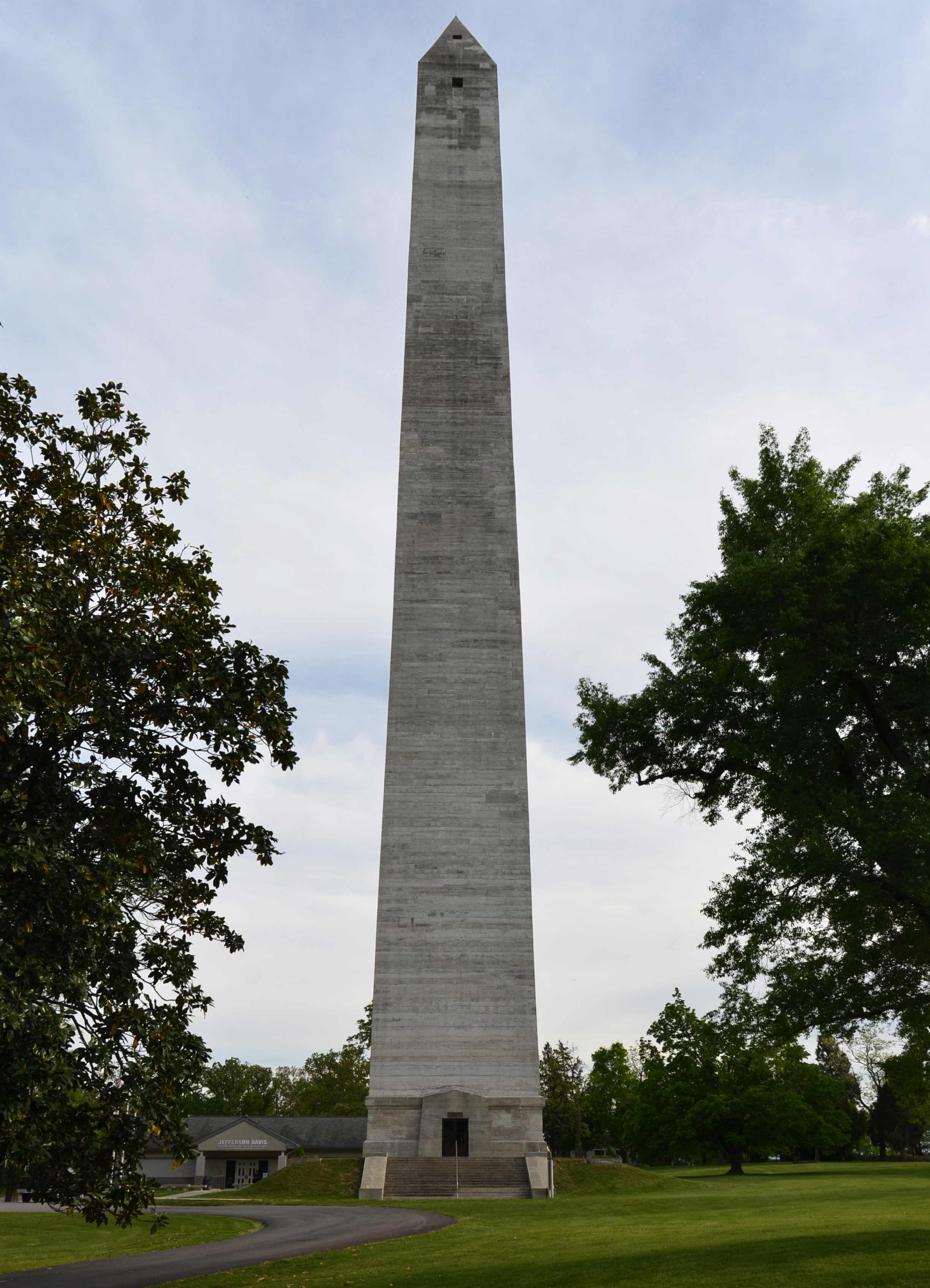 Memorial dedicated to Confederate President Jefferson Davis. Completed in 1924.